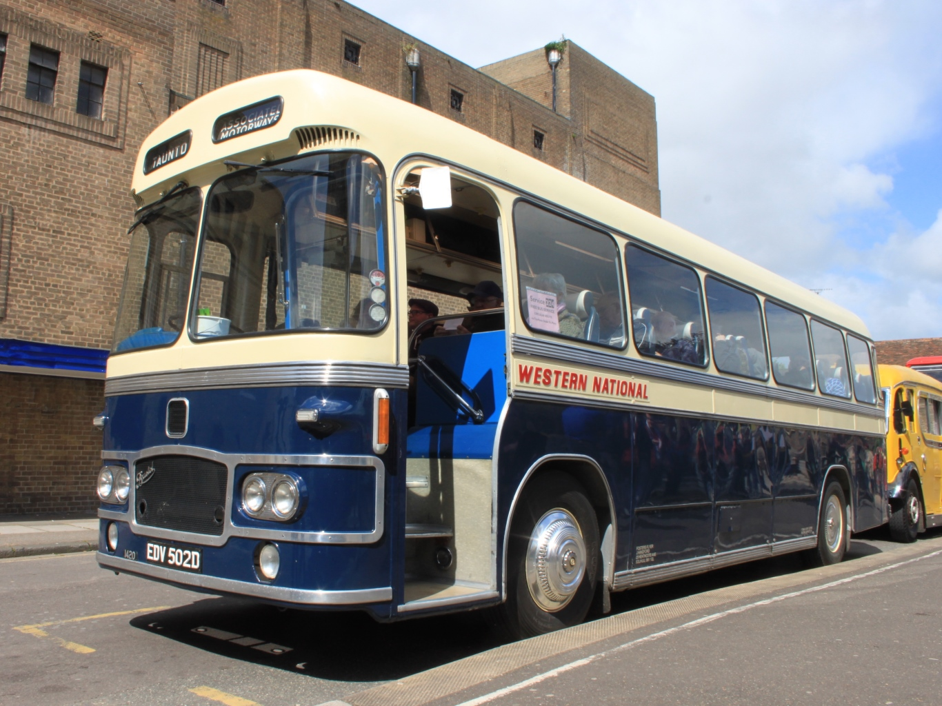 Preserved Western National coach 1420 (a Bristol MW registered EDV 502D which dates from 1966) picks up passengers for a trip from Taunton.